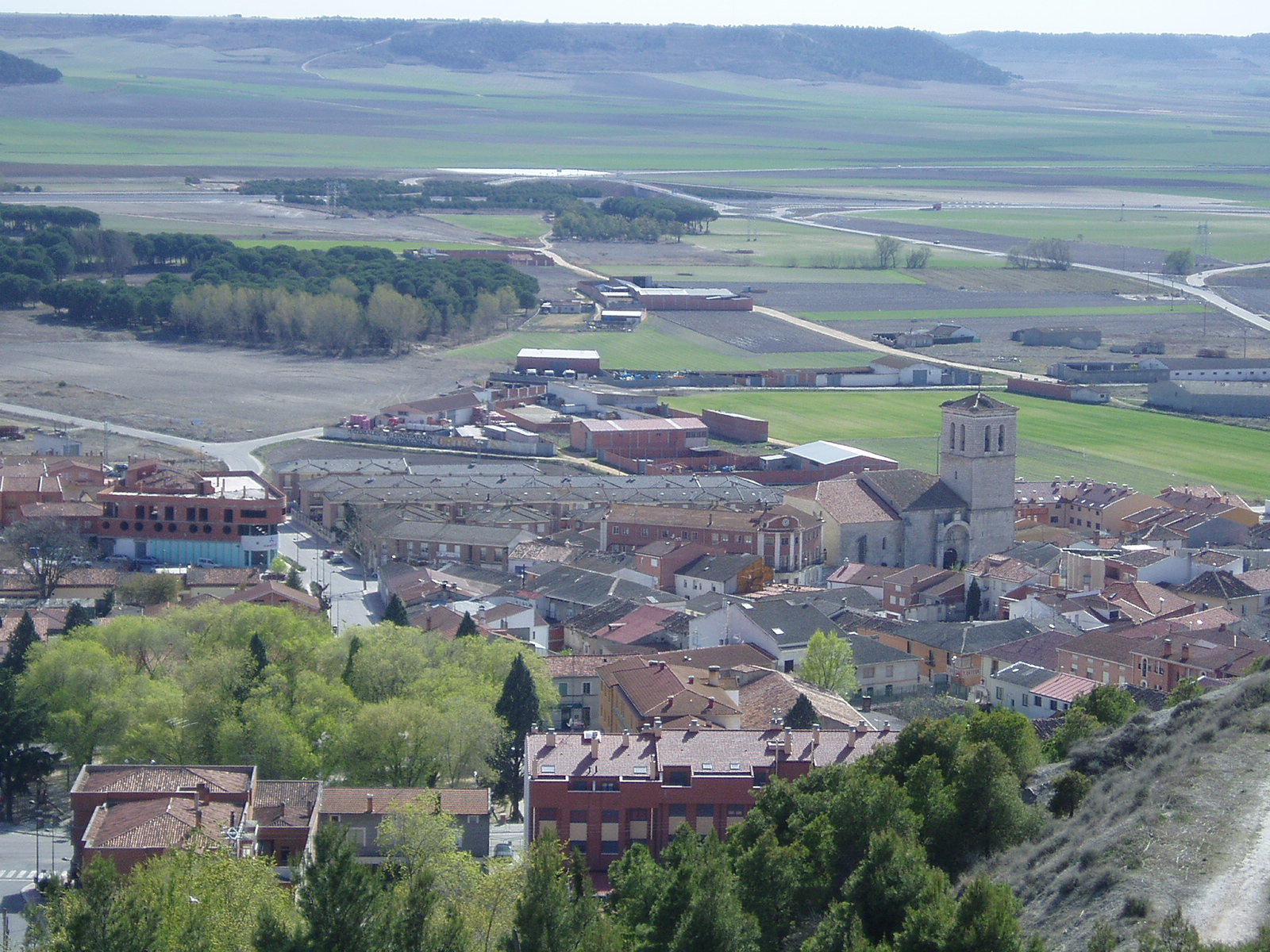 View of Arrabal de Portillo, second district of the village of Portillo (Valladolid).